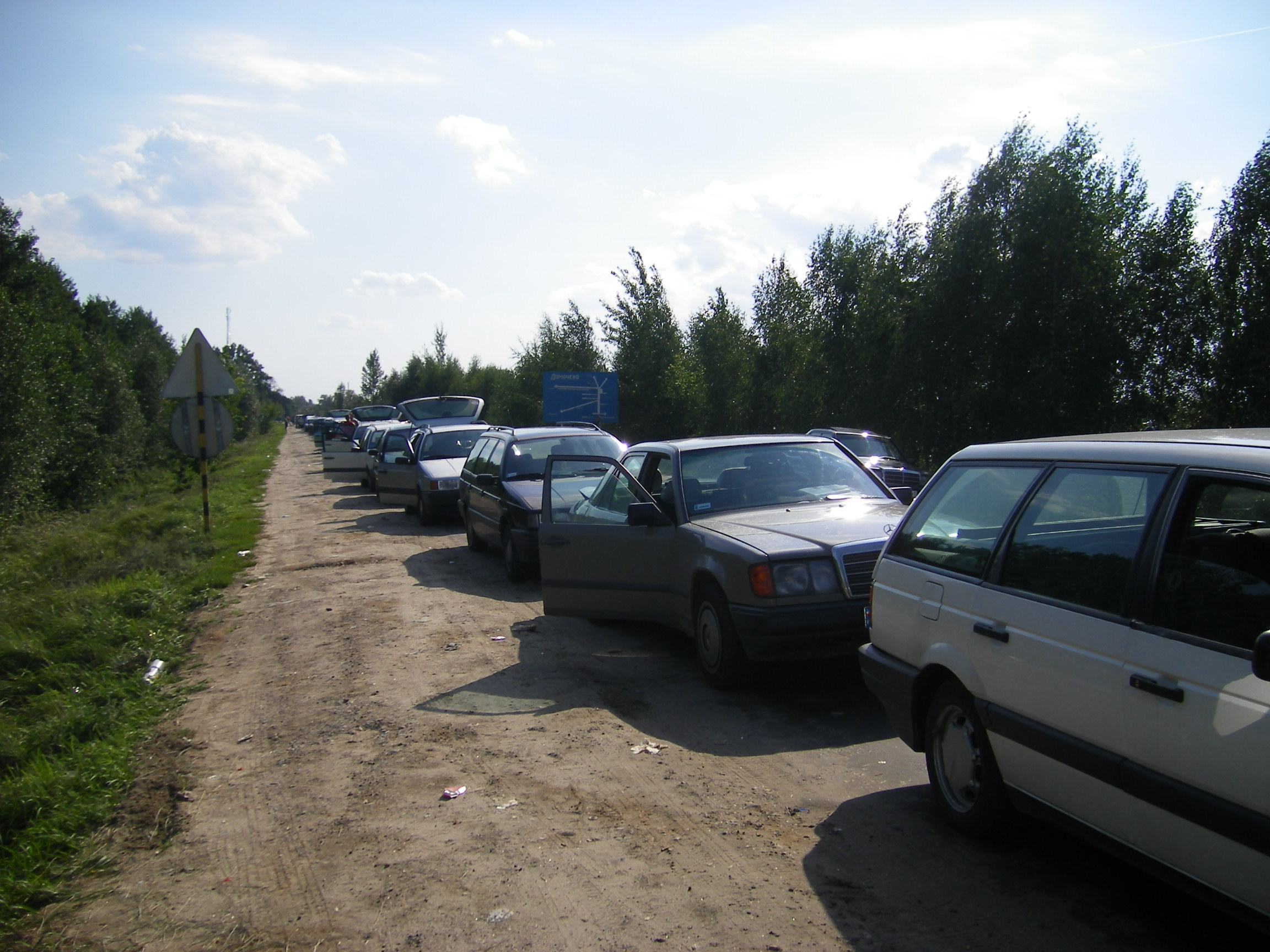 Damacheva, Border crossing to Poland